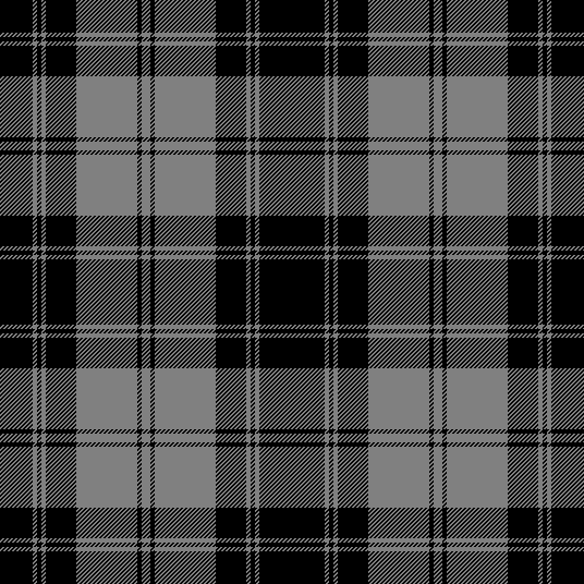 Douglas tartan, as first published in 1842 in the Vestiarium Scoticum. Modern thread count: Bk30 Gy2 Bk2 Gy2 Bk14 Gy28 Bk2 Gy4. The Vestiarium was composed and illustrated by the "Sobieski Stuarts"